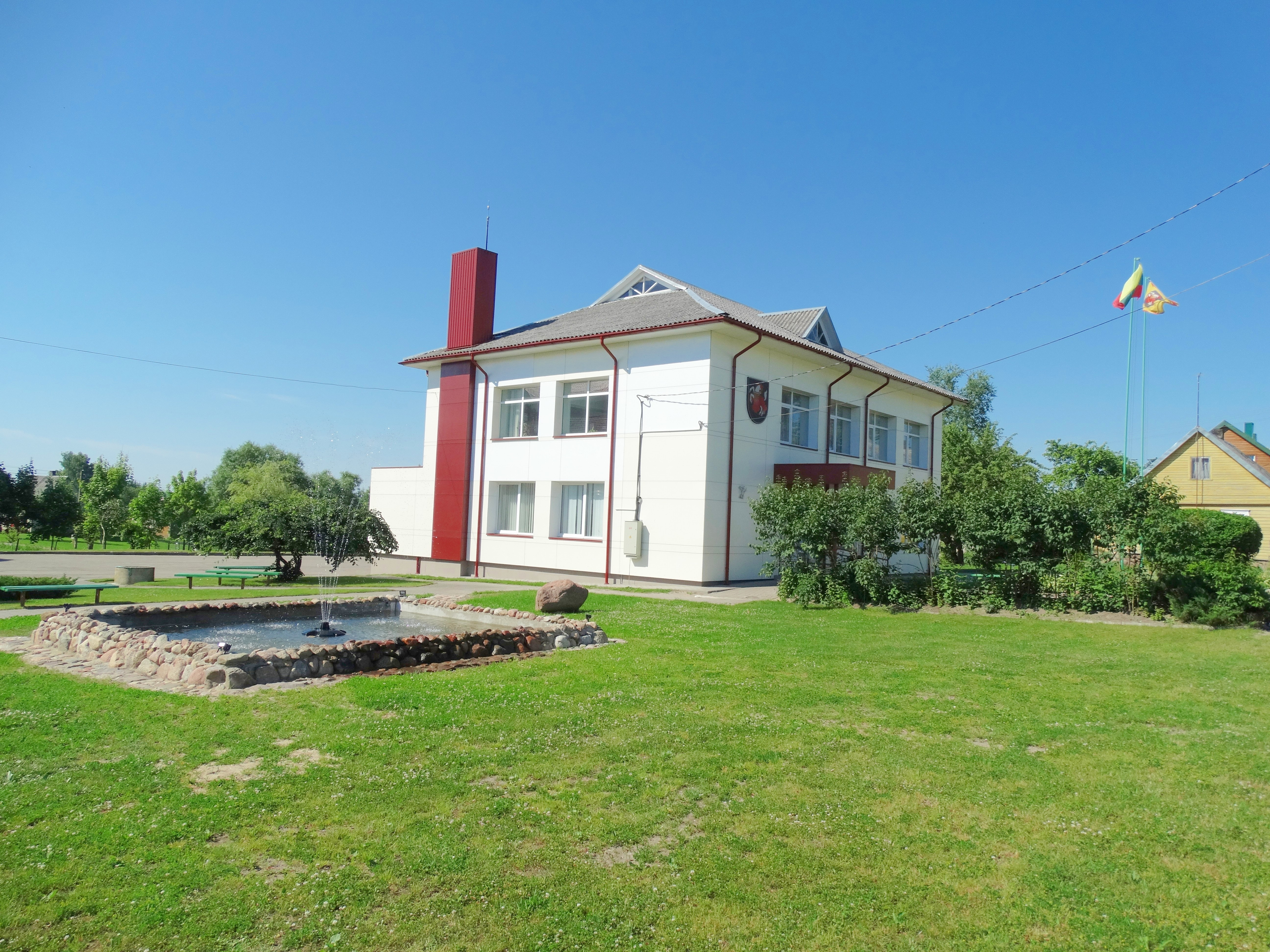 Eldership in Laukuva, Šilalė District, Lithuania